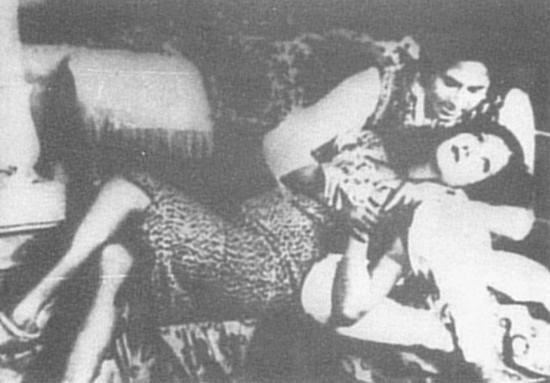 A rare still from Ardeshir Irani's Alam Ara, the first Indian talkie (1931). As it was released in 1931 in India it is a public domain image.